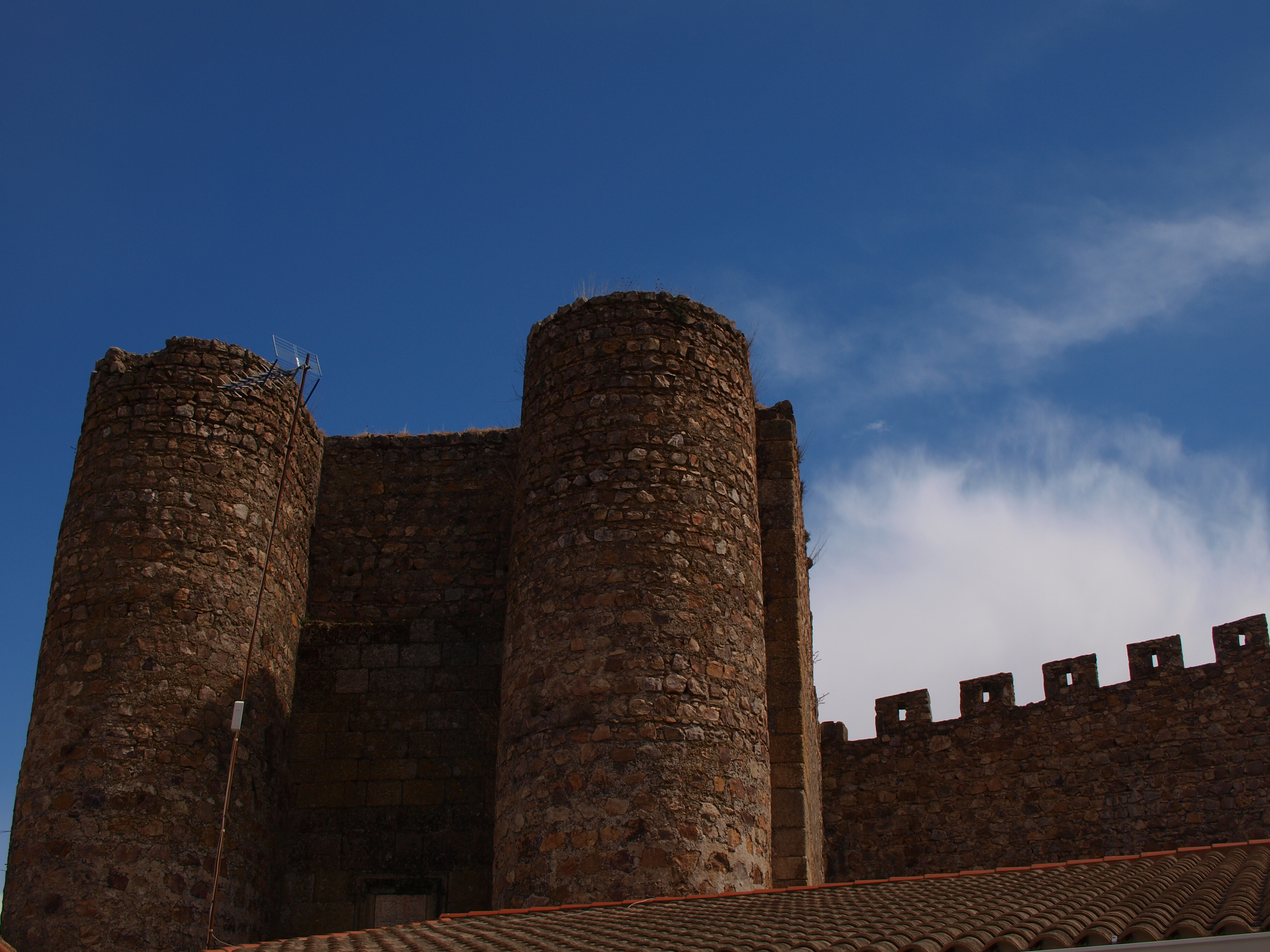 Alburquerque castle tower.